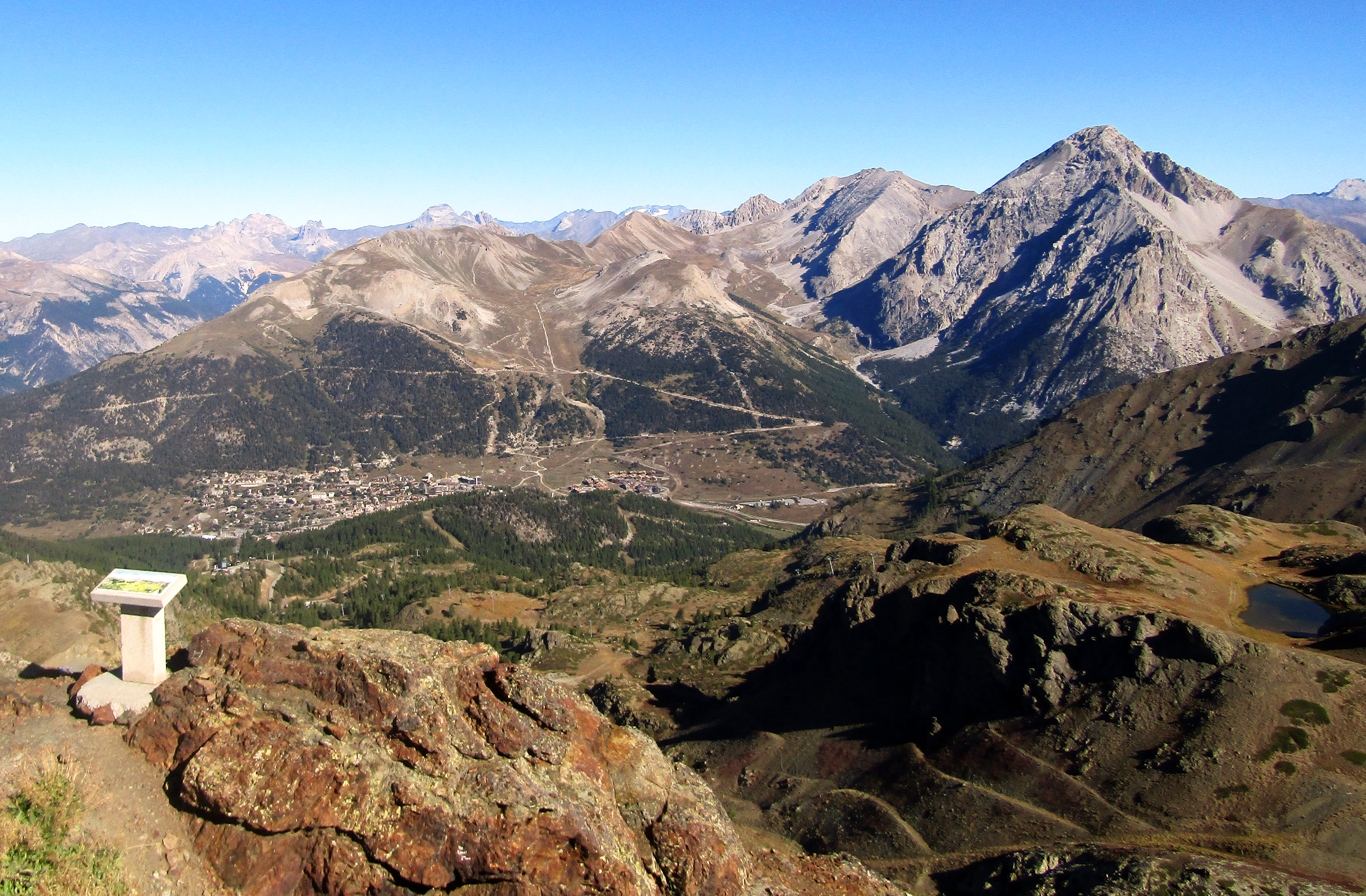 Mount Chenaillet (Cottian Alps, France): summit orientation table, on the background Montgénevre and the Chaberton group